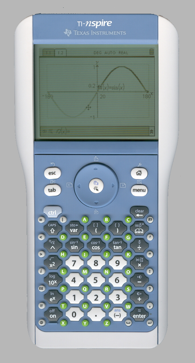 TI-Nspire Click